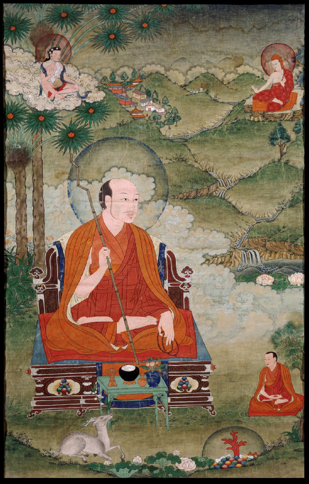 Potowa Rinchen Sel (b.1027 - d.1105), eleventh century Tibetan Buddhist monk